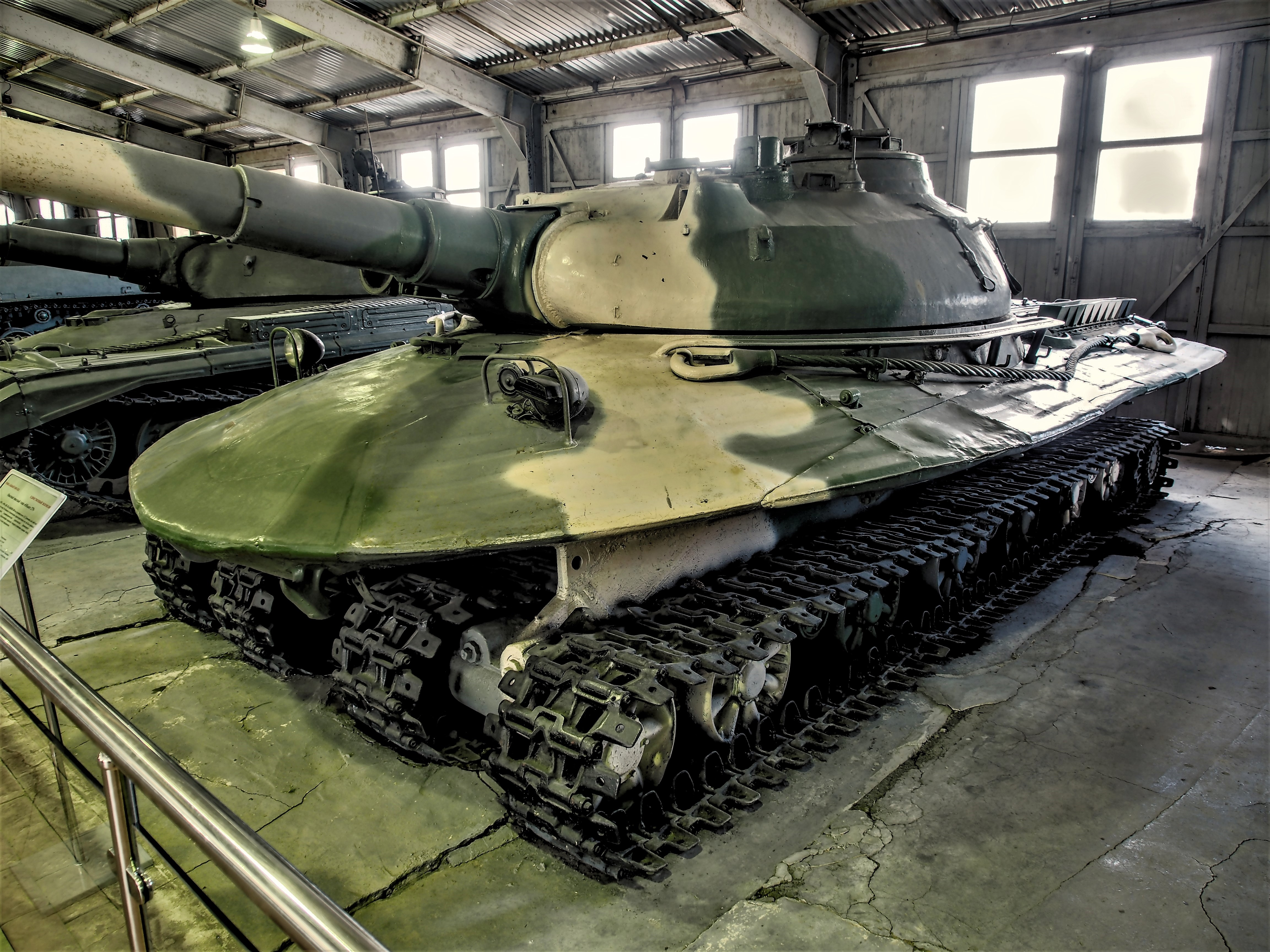 Object 279 at the Kubinka tank museum. Fusion F.3 (HDR; Mode 1)